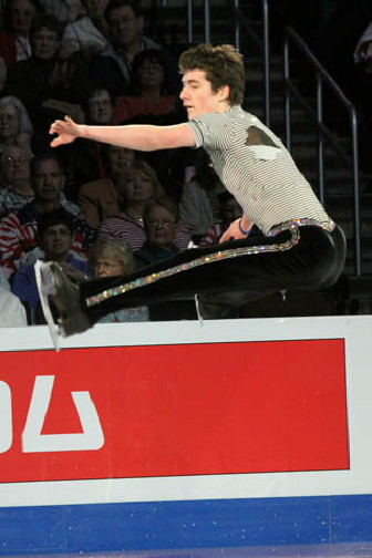 Brandon Mroz performs a split jump during his Jailhouse Rock exhibition at the 2009 World Figure Skating Championships. He placed 9th at this competition.